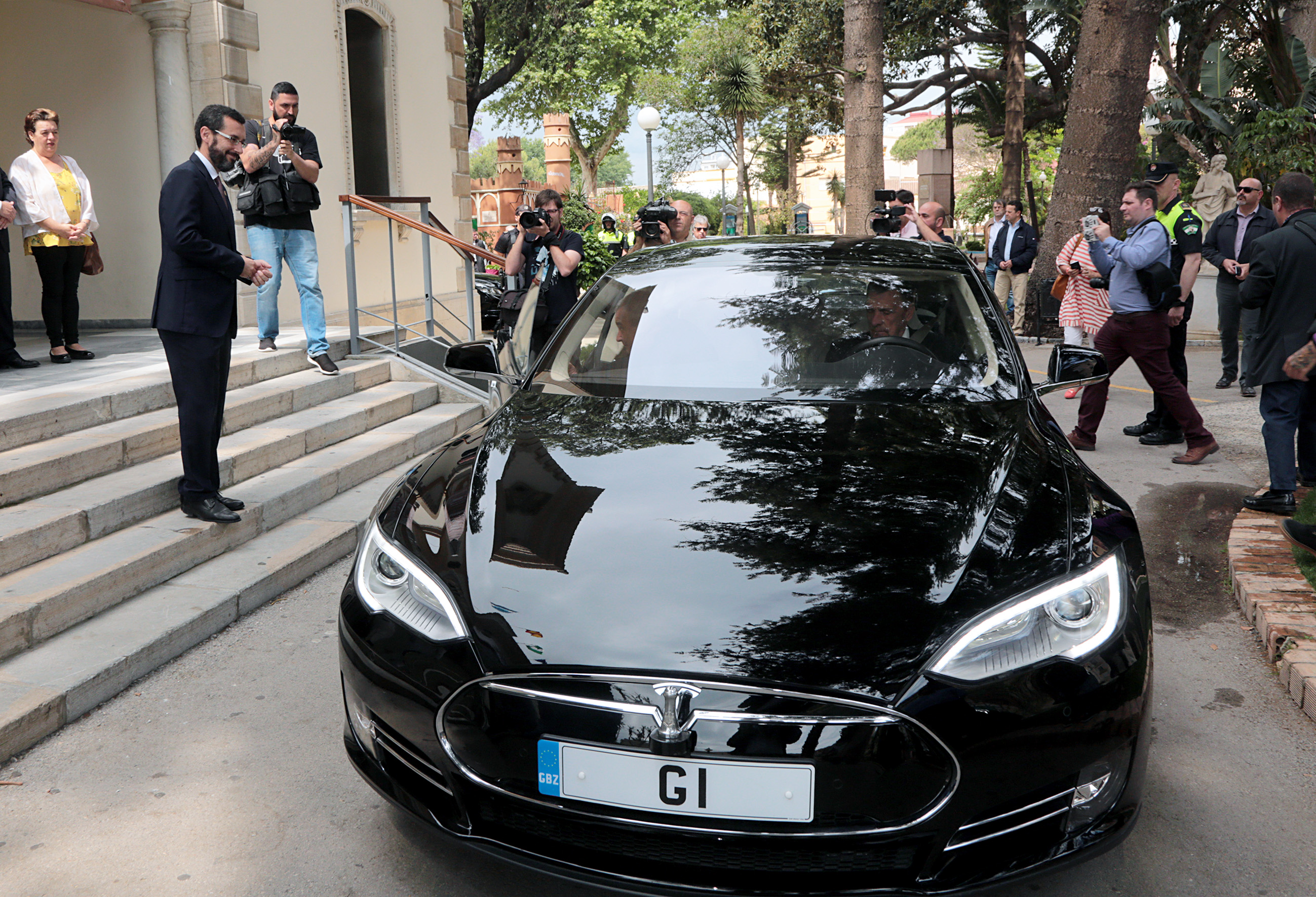 The official car of the Chief Minister of Gibraltar, a Tesla Signature Model S, used by Fabian Picardo, Chief Minister of Gibraltar, on an official visit to La Línea de la Concepción, Spain.